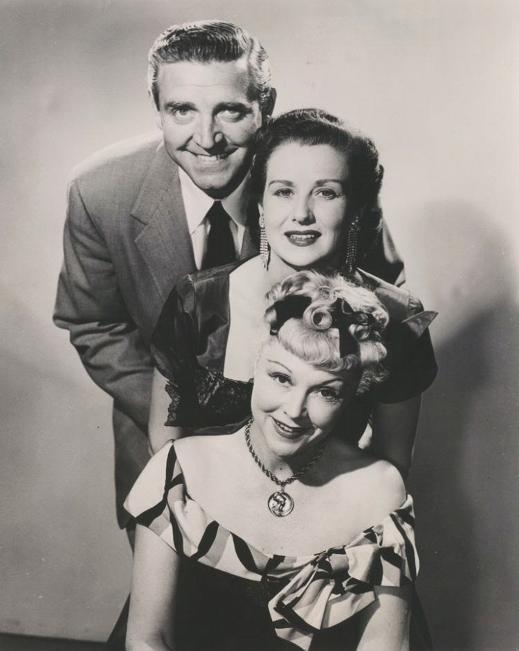 Robert Paige, Ruth Warrick (center), and Joyce Compton in the NBC-TV series Fireside Theater, episode The Gift Horse - publicity still (cropped : see source)